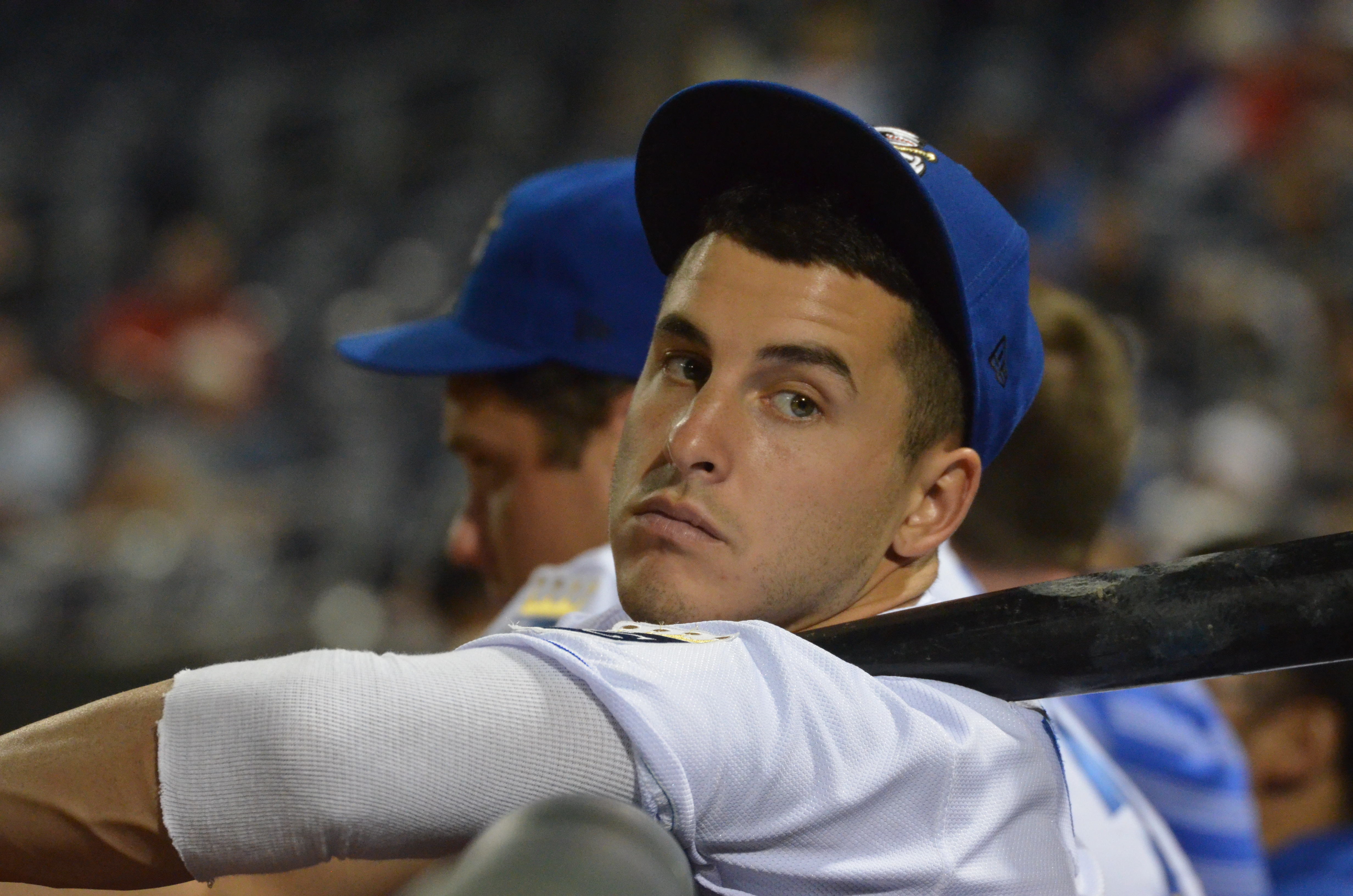 Ryan Verdugo of the Omaha Storm Chasers at Werner Park in Omaha in 2013